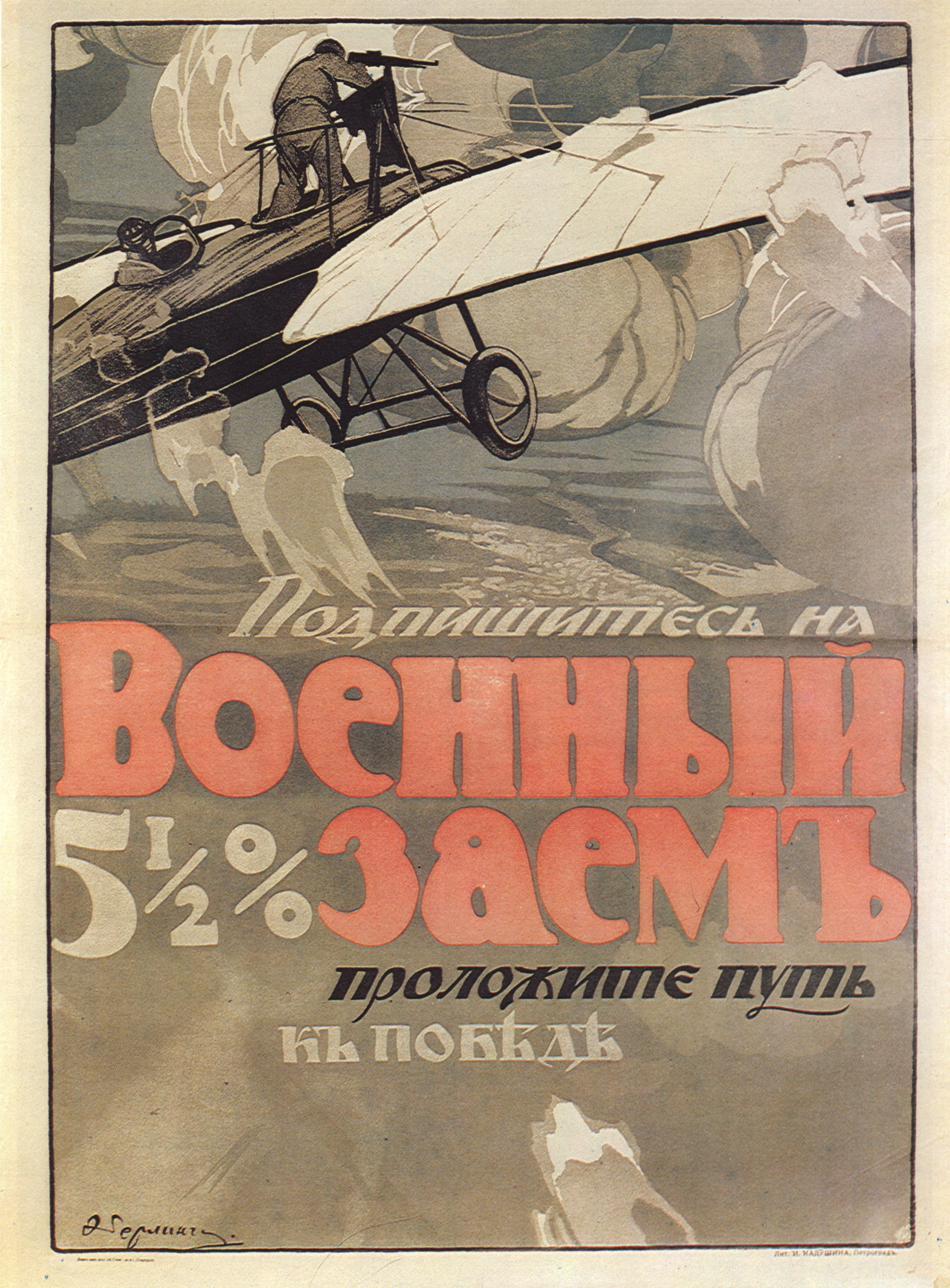 poster